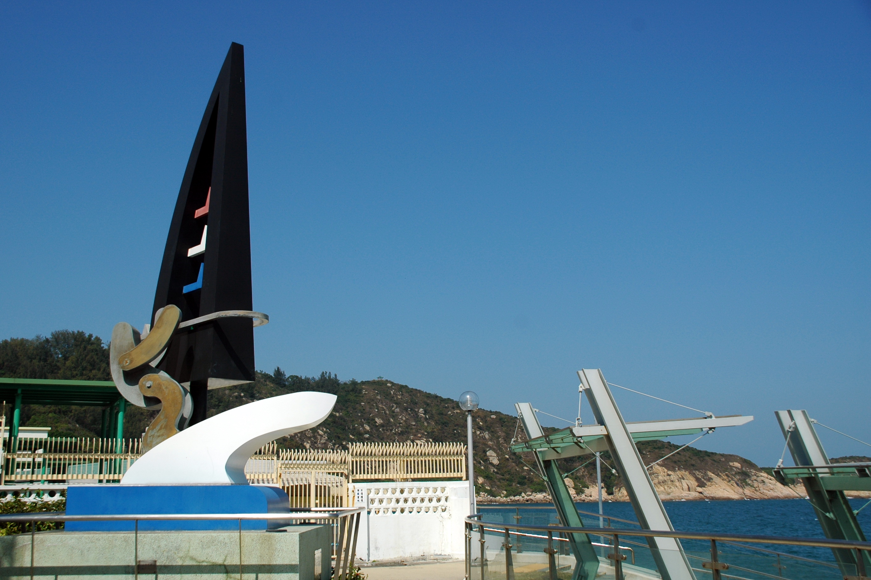 A sculpture dedicated to the promotion of windsurfing on Tung Wan Beach, Cheung Chau. Unveiled on September 7, 1996 by the windsurfing gold medallist of the Olympic Games 1996 - Ms Lee Lai-Shan, and other government officials.